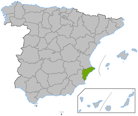 Location of the province of Alicante, in Spain. Basado en: ProvPont.jpg Source: Designed by Satesclop. Original picture, designed by Sobreira.